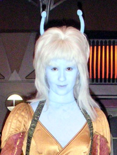 Andorian (cast member at Star Trek: The Experience, Las Vegas)